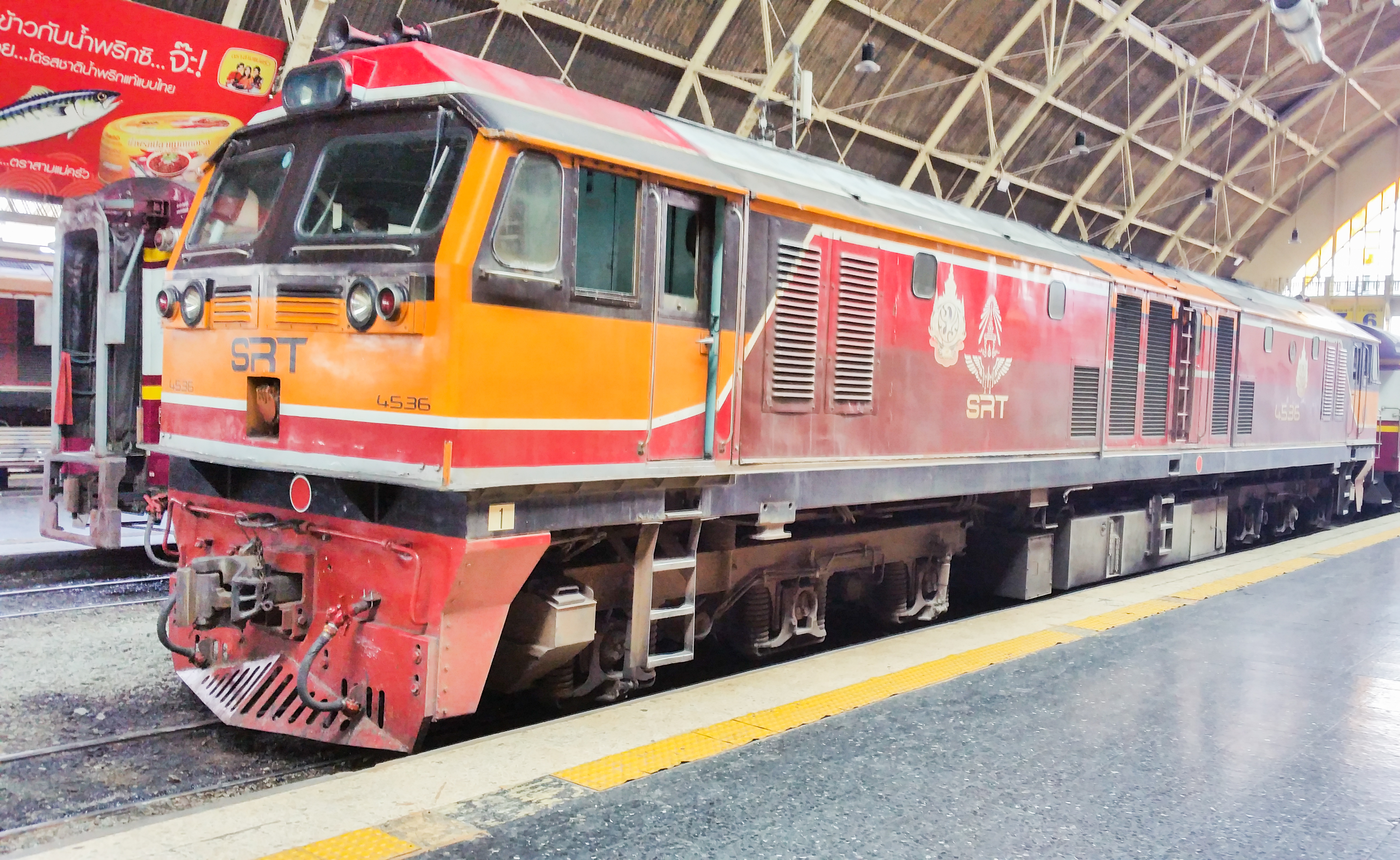 SRT General Electric diesel-electric locomotive number 4536 at Hua Lamphong station, Bangkok.